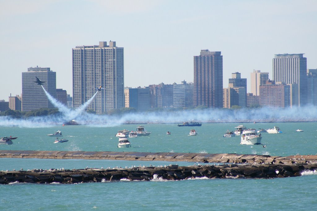 from Chicago's second largest attraction - Air & Water Show (2006) Summary from Chicago's second largest attraction - Air & Water Show (2006)